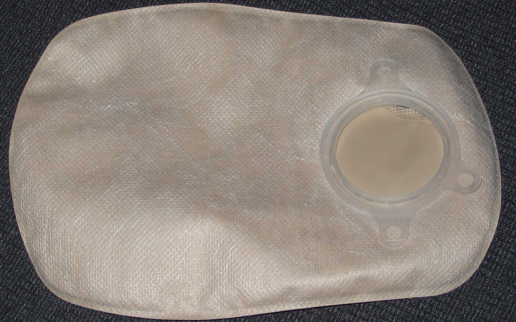 Two-piece colostomy bag (pouch). DCwom, author, released to public domain